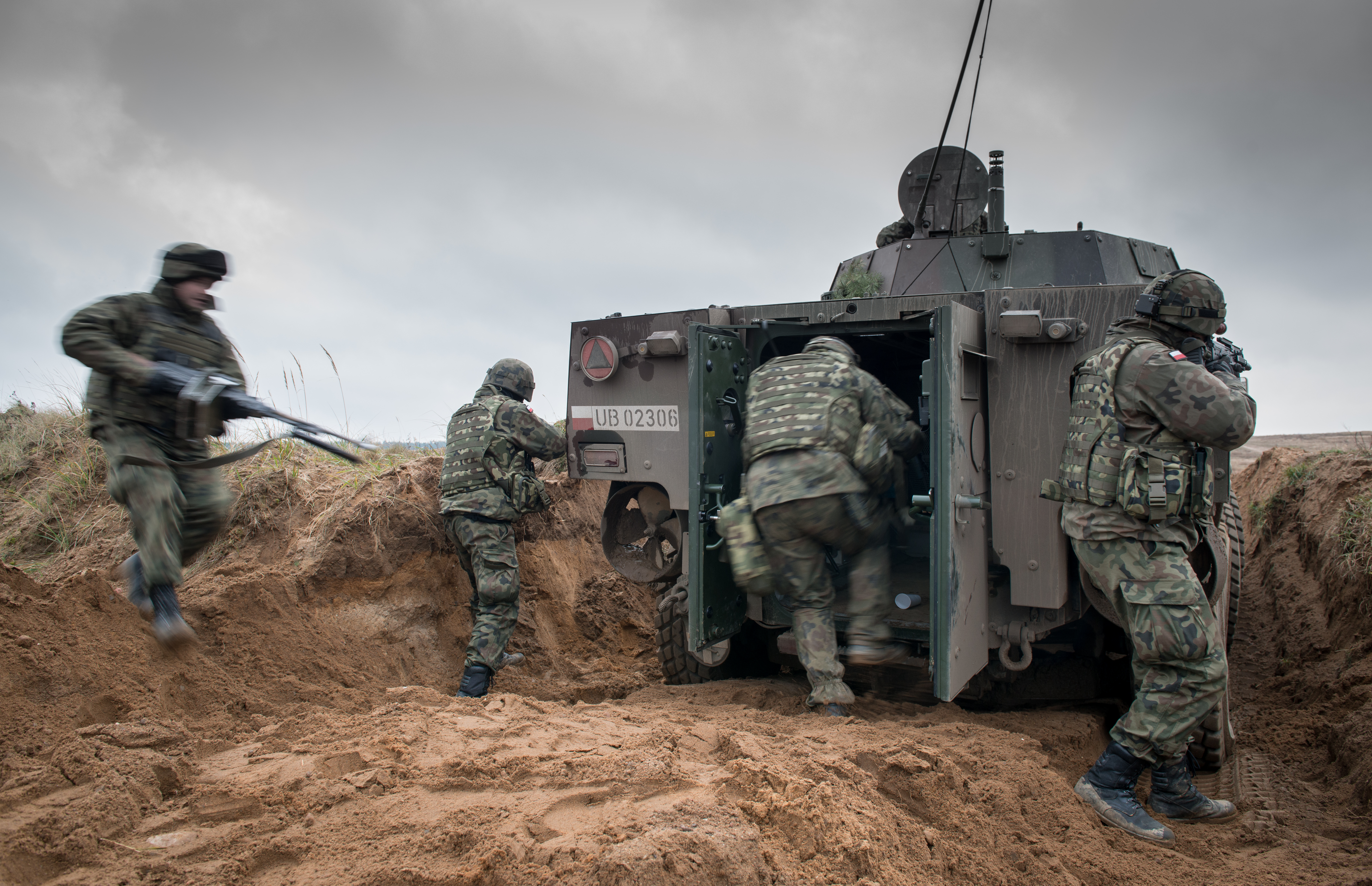 Crew of a Polish Wolvarine Armoured Personnel Carrier practice demounting and taking up defencive positions during a live fire exercise on Exercise Steadfast Jazz at the Drawsko Pomorskie Training Area, Poland, on Nov. 6, 2013. Exercise Steadfast Jazz 2013 is taking place from 1-9 November in a number of Alliance nations including the Baltic States and Poland. The purpose of the exercise is to train and test the NATO Response Force, a highly ready and technologically advanced multinational force made up of land, air, maritime and special forces components that the Alliance can deploy quickly wherever needed. The Steadfast series of exercises are part of NATO’s efforts to maintain connected and interoperable forces at a high-level of readiness. (NATO photo/SSgt Ian Houlding GBR Army)